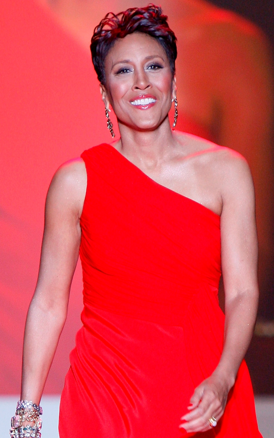 Robin Roberts in J. Crew Collection at The Heart Truth's Red Dress Collection 2010